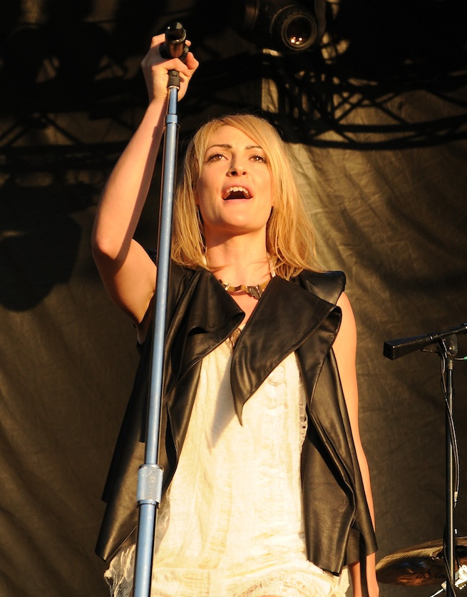 Emily Haines of Metric at the 2011 Cisco Ottawa Bluesfest. By: Brennan Schnell